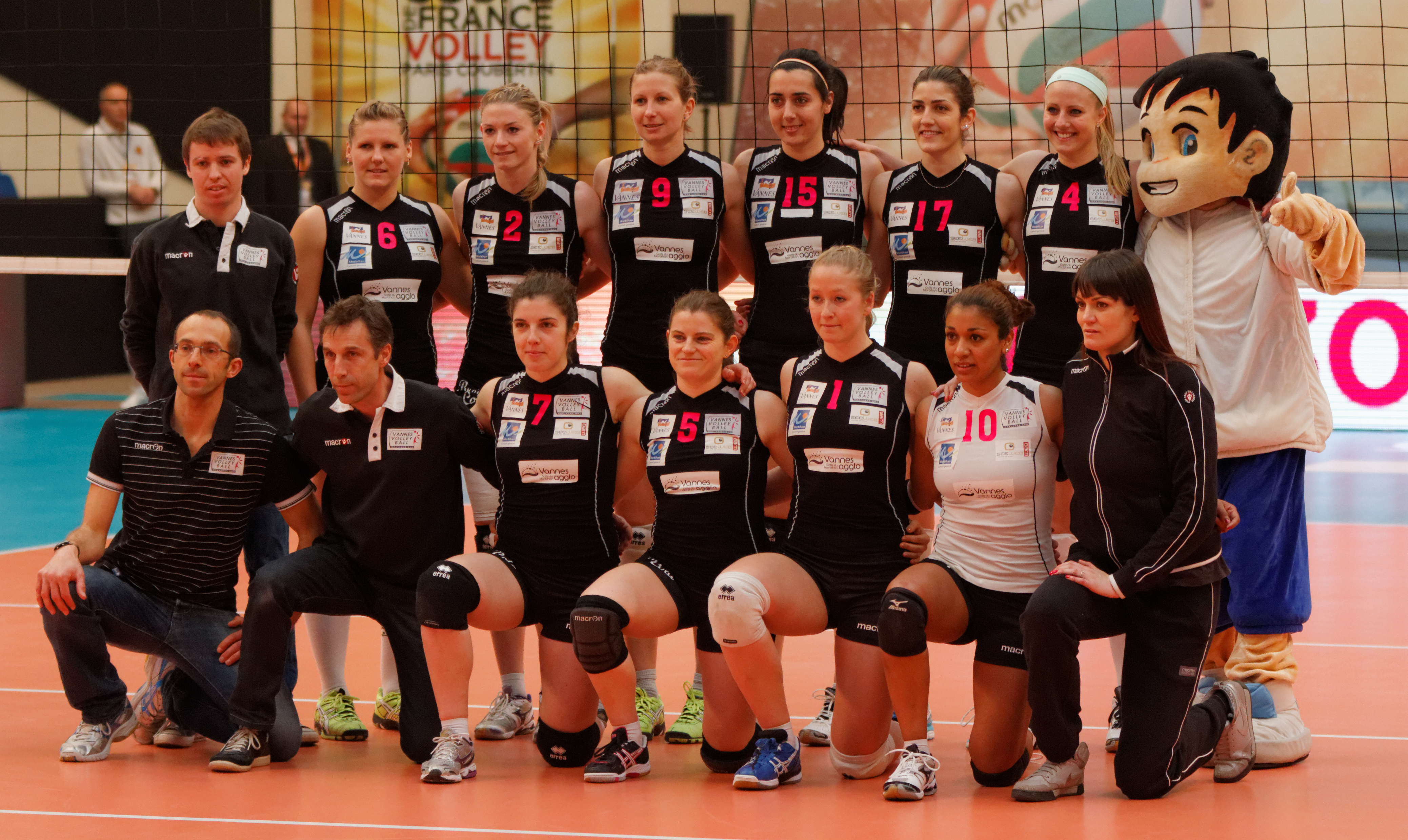 Final of the Volleyball French Cup, Vannes Volley-Ball - Terville Florange Olympique Club, March 30, 2013.